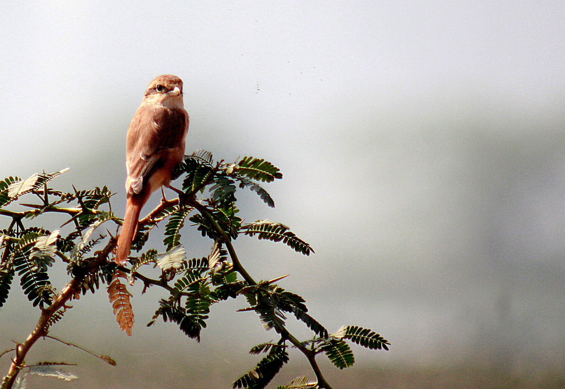 at :Basai Wetland